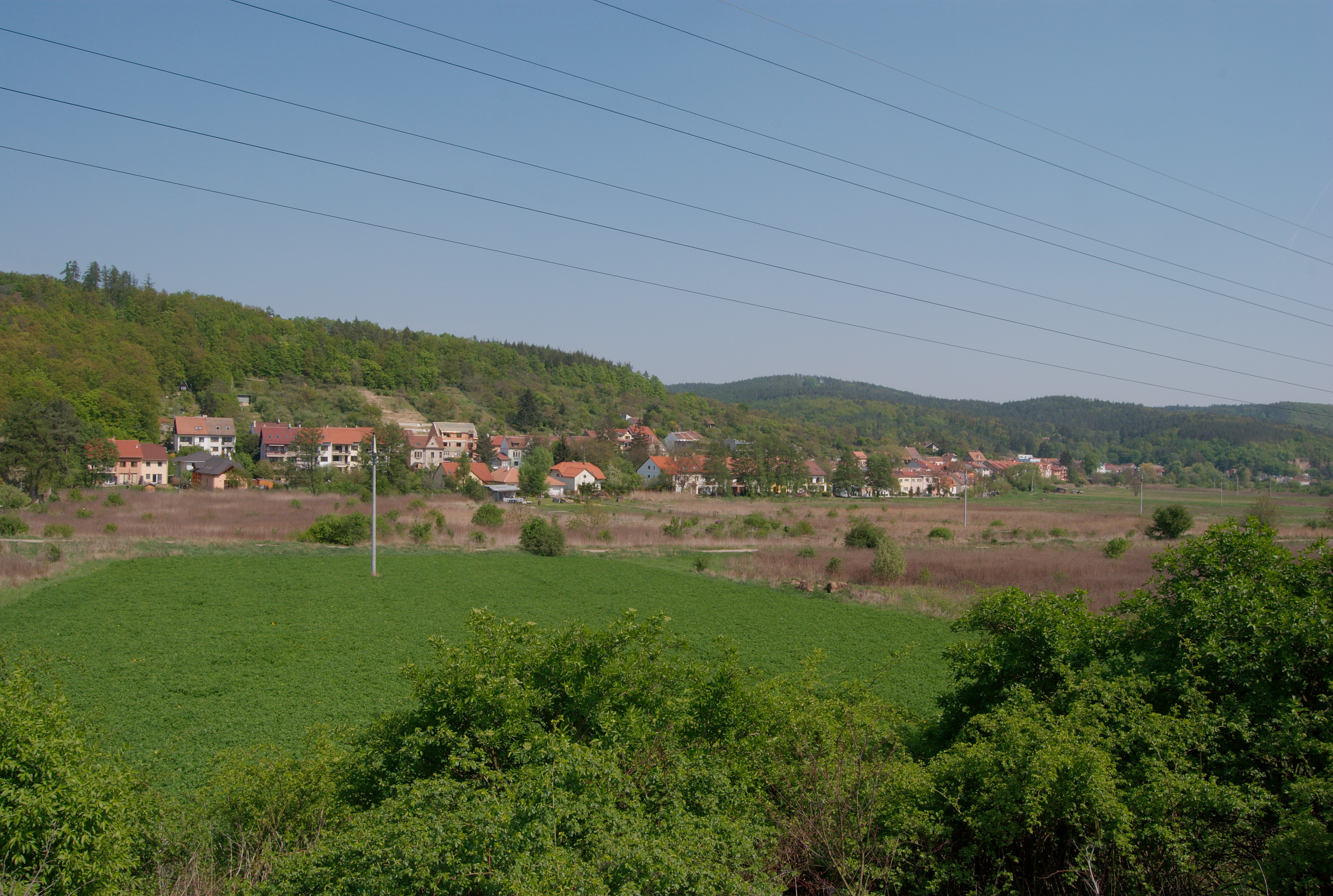 Mokrá Hora from west